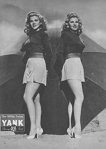 Pin-up photo of The Wilde Twins for the Aug. 3, 1945 issue of Yank, the Army Weekly, a weekly U.S. Army magazine fully staffed by enlisted men.